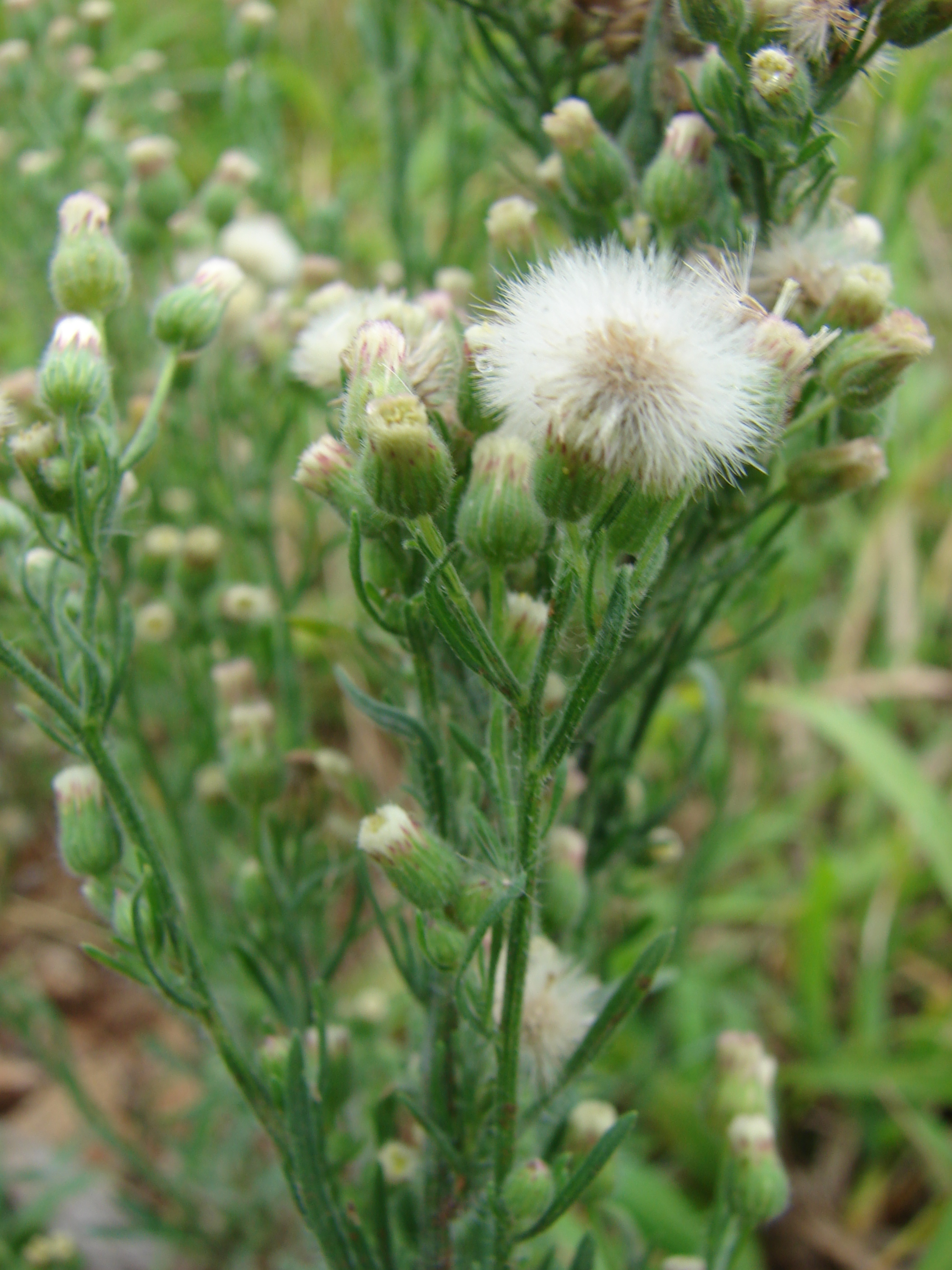 Conyza bonariensis (seedheads). Location: Kahoolawe, LZ1